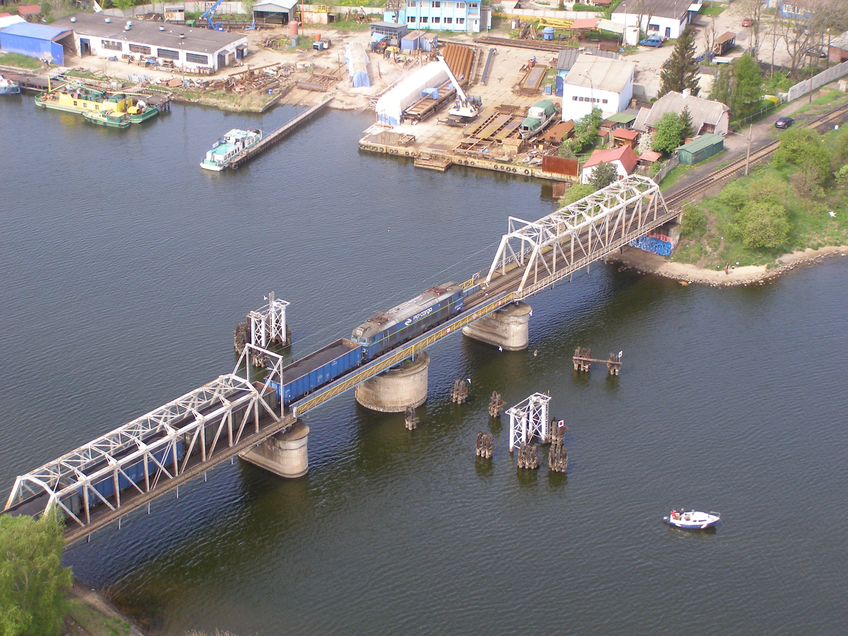 Gdańsk - view from the John Paul II Bridge.